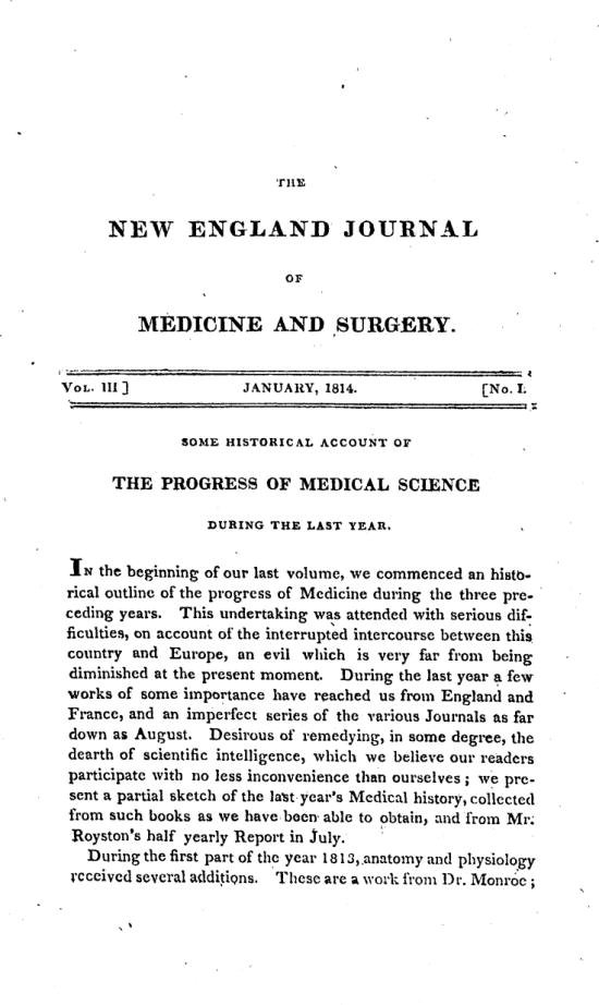 Coverpage of the January 1, 1814 of the NEJM. Converted to .jpg file by the uploader.